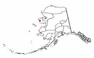 Adapted from Wikipedia's AK borough maps by Seth Ilys.